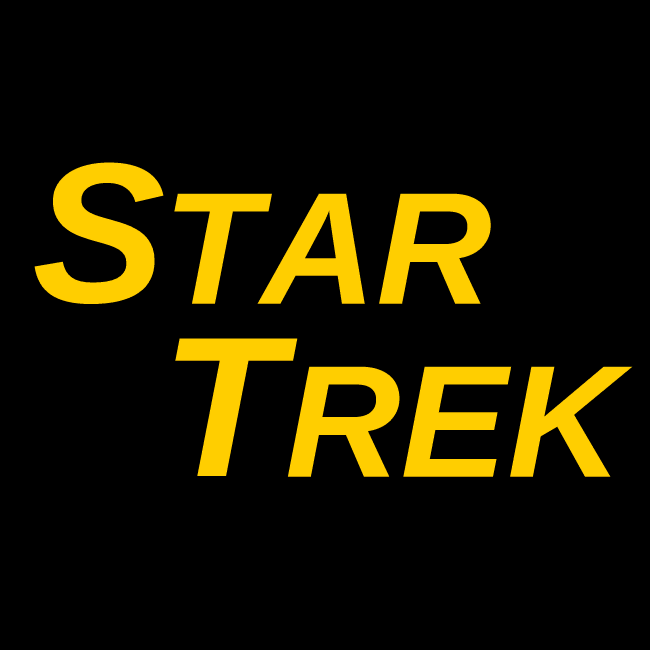 Simplified re-creation of Star Trek Classic series main title (using generic sans-serif font instead of specific original TOS font, and omitting starry background)